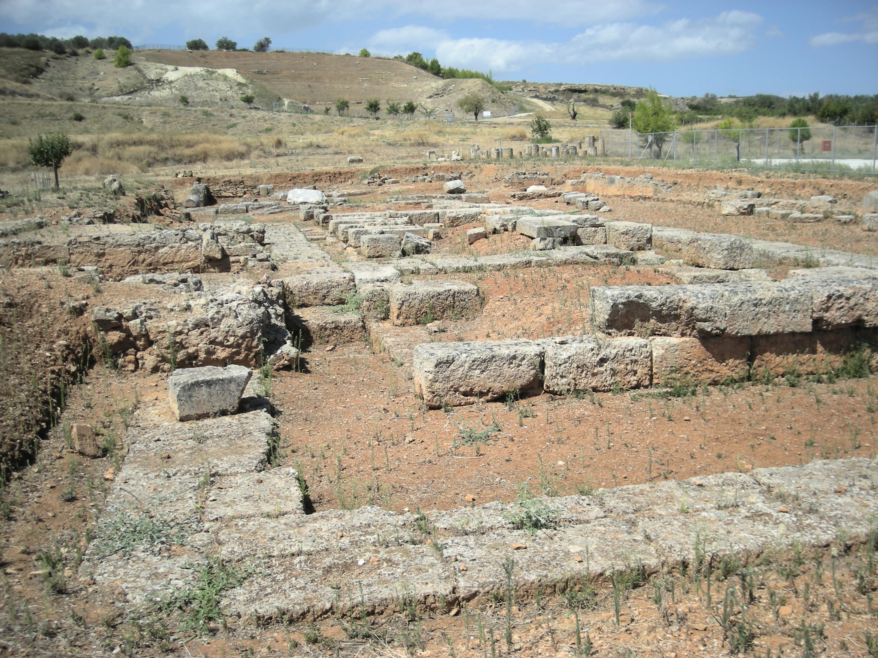 Foundations of the doric temple in ancient Sikyon